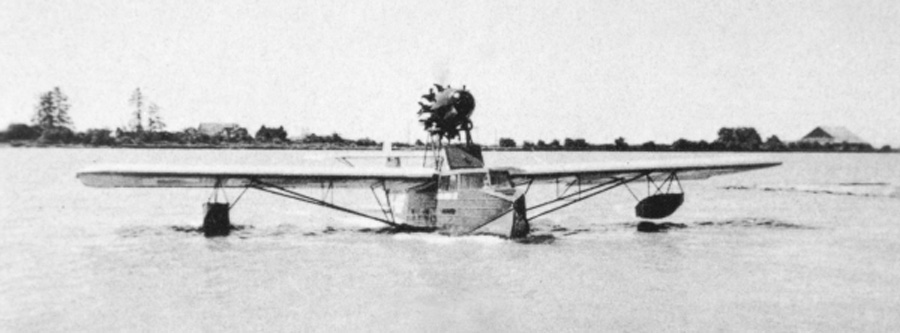 Catalog #: 00075874 Manufacturer: "Boeing Aircraft of Canada, LTD" Official Nickname: Totem Notes: 1933